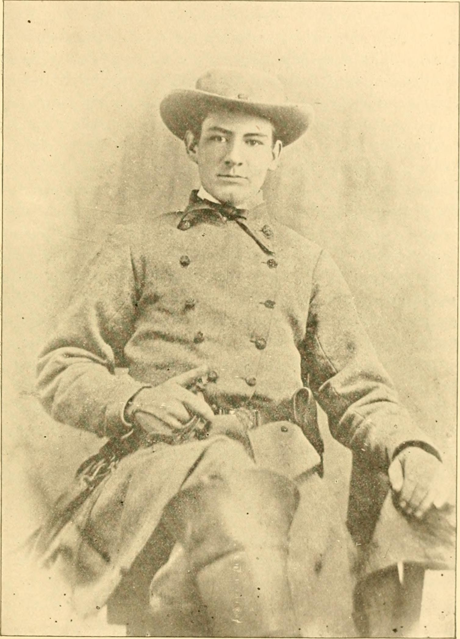 William J. Locke, killed in action at Ashland, Virginia, June 1, 1864 Title: Bull run to Bull run; or, Four years in the army of northern Virginia. Containing a detailed account of the career and adventures of the Baylor Light Horse, Company B., Twelfth Virginia Cavalry, C. S. A., with leaves from my scrap-book Year: 1900 (1900s) Authors: Baylor, George, b. 1843 Subjects: Virginia cavalry. 12th regiment, 1862-1865 United States -- History Civil War, 1861-1865 Regimental histories Virginia Cavalry 12th Company B Publisher: Richmond, B. F. Johnson Publishing Company Text Appearing Before Image: doom is pronounced,and the ghost of Meade, with a kingly crown, walks upon thestage. Meade struts his little hour upon that stage and theglory of Grant soon obscures him. On the 3d of May, 1864, the armies of Grant and Lee beganto move, and our brigade was ordered east of the mountains.The men and horses, refreshed from the rest of the past three Text Appearing After Image: Wni Locke. 202 Bull Run lo Bull Run. months, were now ready for another campaign. The brigadereached Waynesboro on the 3d, and bivouacked for th.e night.Having learned of its movements, I bade the hospital farewelland reported for duty. On the 4th, crossed the Blue Ridgeand passed through Charlottesville on our way to TodsTavern. The next day, as we were nearing Tods Tavern,with the Twelfth Cavalry in front and Companies B and I inadvance, under Captain Louis Harman (who had lately beenpromoted from adjutant of our regiment to the captaincyof Company I), we suddenly encountered the advance ofWilsons Division of Cavalry. General Rosser, who wasriding with the advance, immediately ordered a charge, andoff the squadron went, striking the enemy a blow whichcaused a panic and flight without much resistance. Rushingthe advance back on its regiment, that also broke and joinedin the retreat. Sabers w^ere freely used on the retreating- foe,and large numbers of them captured. Our advantagewas p